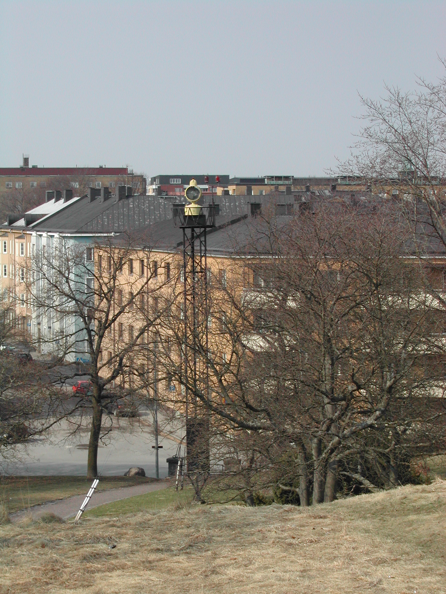 The preserved Swedish airway beacon placed in Oxelbergsparken, Norrköping, a gift from Norrköping municipality to the Swedish Civil Aviation Administration in 1981